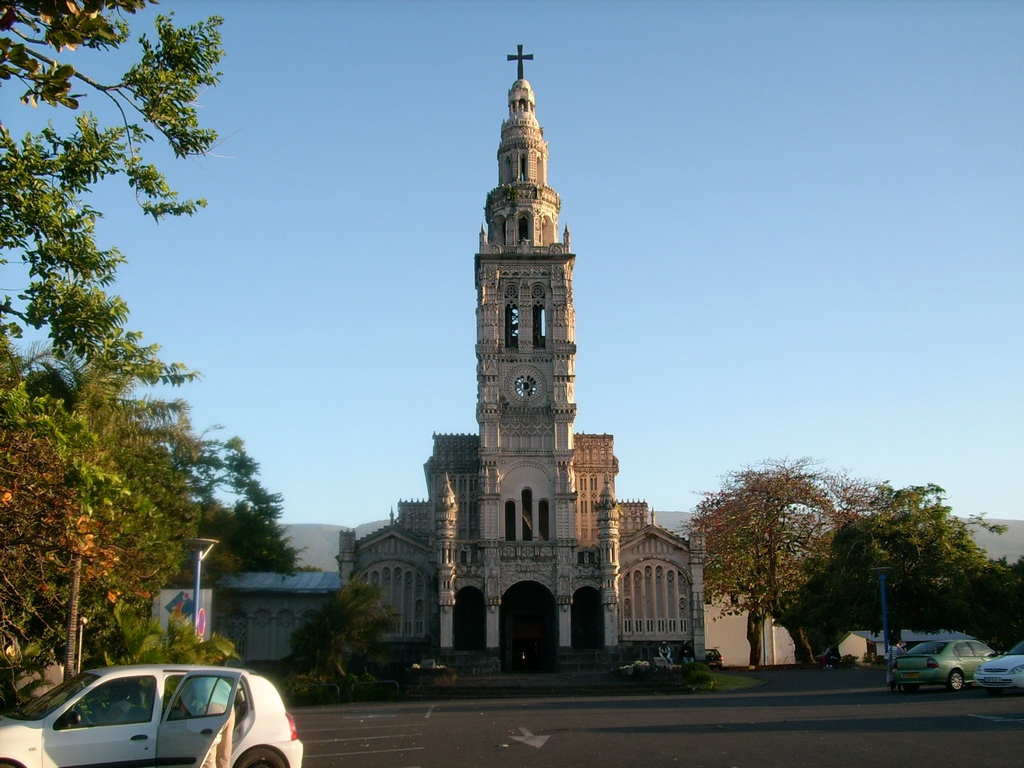 Church of Sainte-Anne, Reunion island